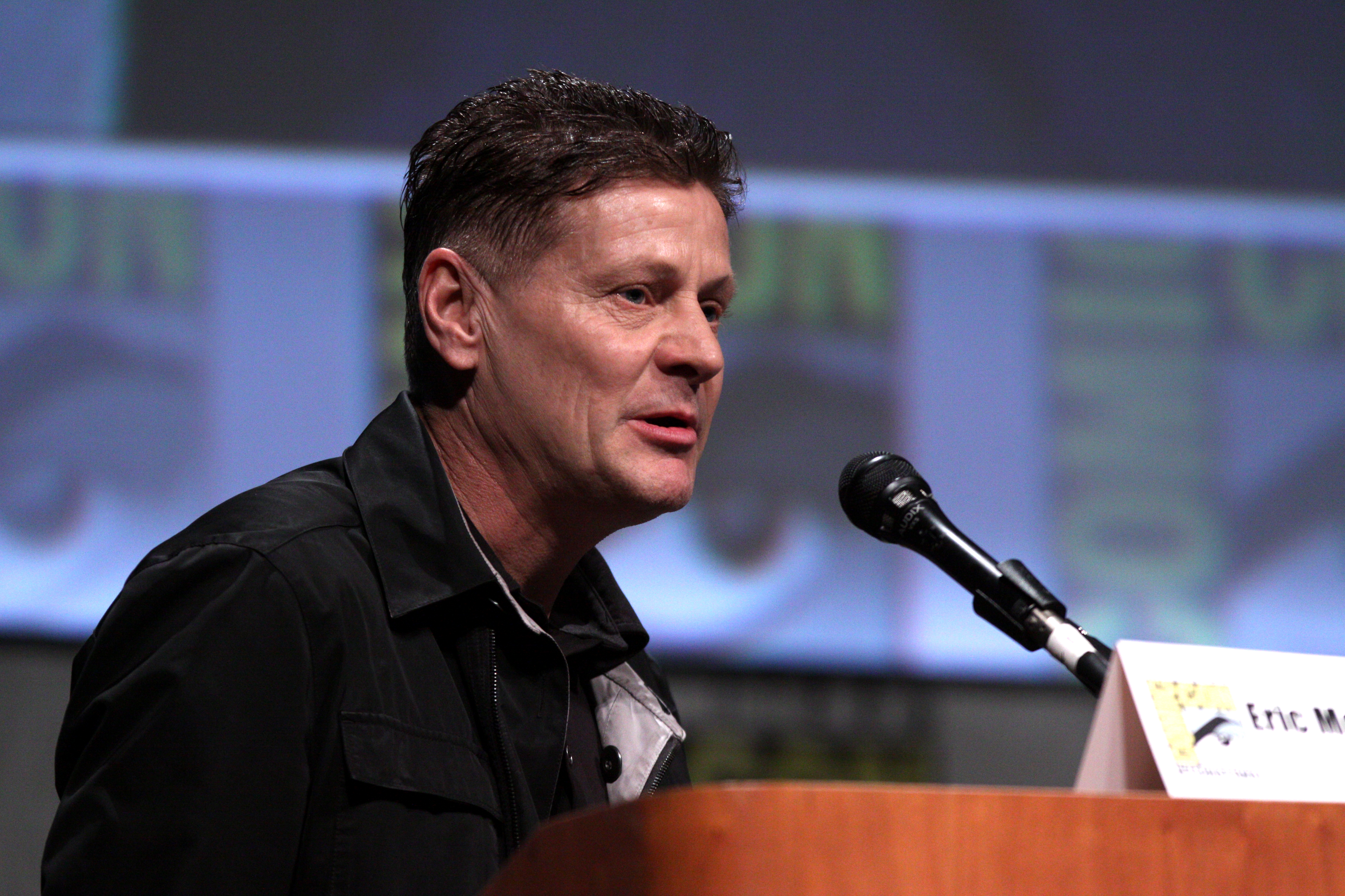 Andrew Niccol speaking at the 2012 San Diego Comic-Con International in San Diego, California.